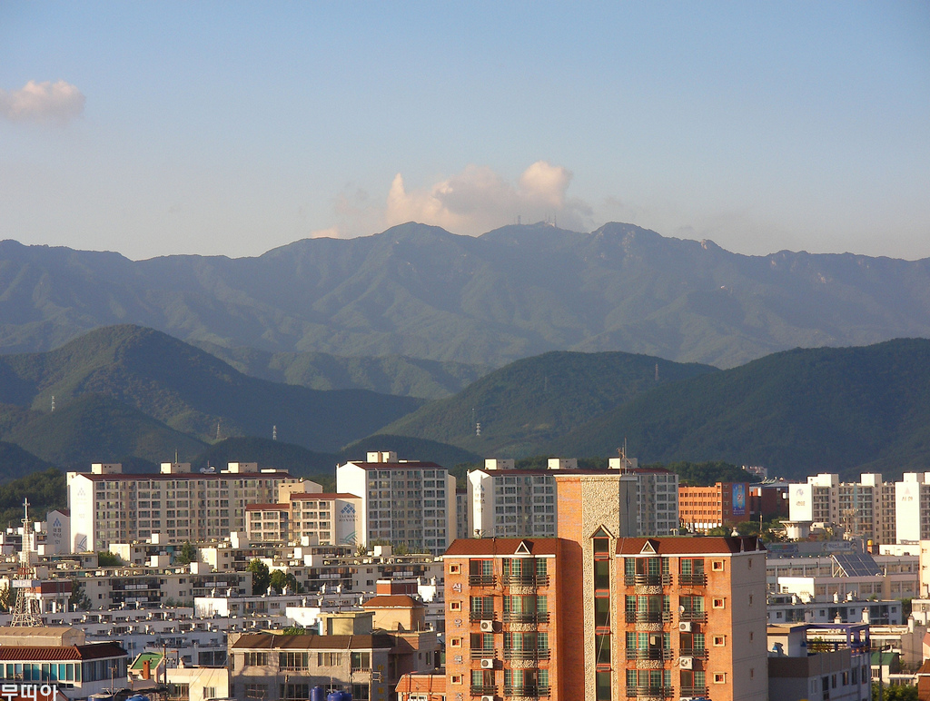 when i was in hyangtogwan, Kyungpook National University, summer 2007